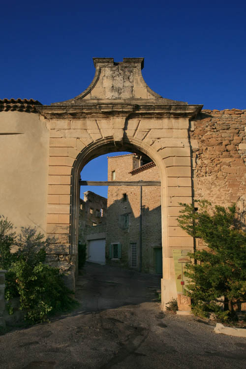 the village of Grillon, Vaucluse, France